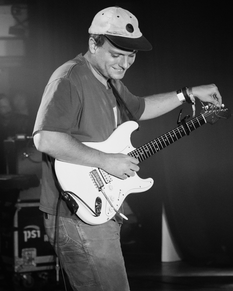 MacDeMarcoElKorahShrineTreefortCreditAlexHecht-13